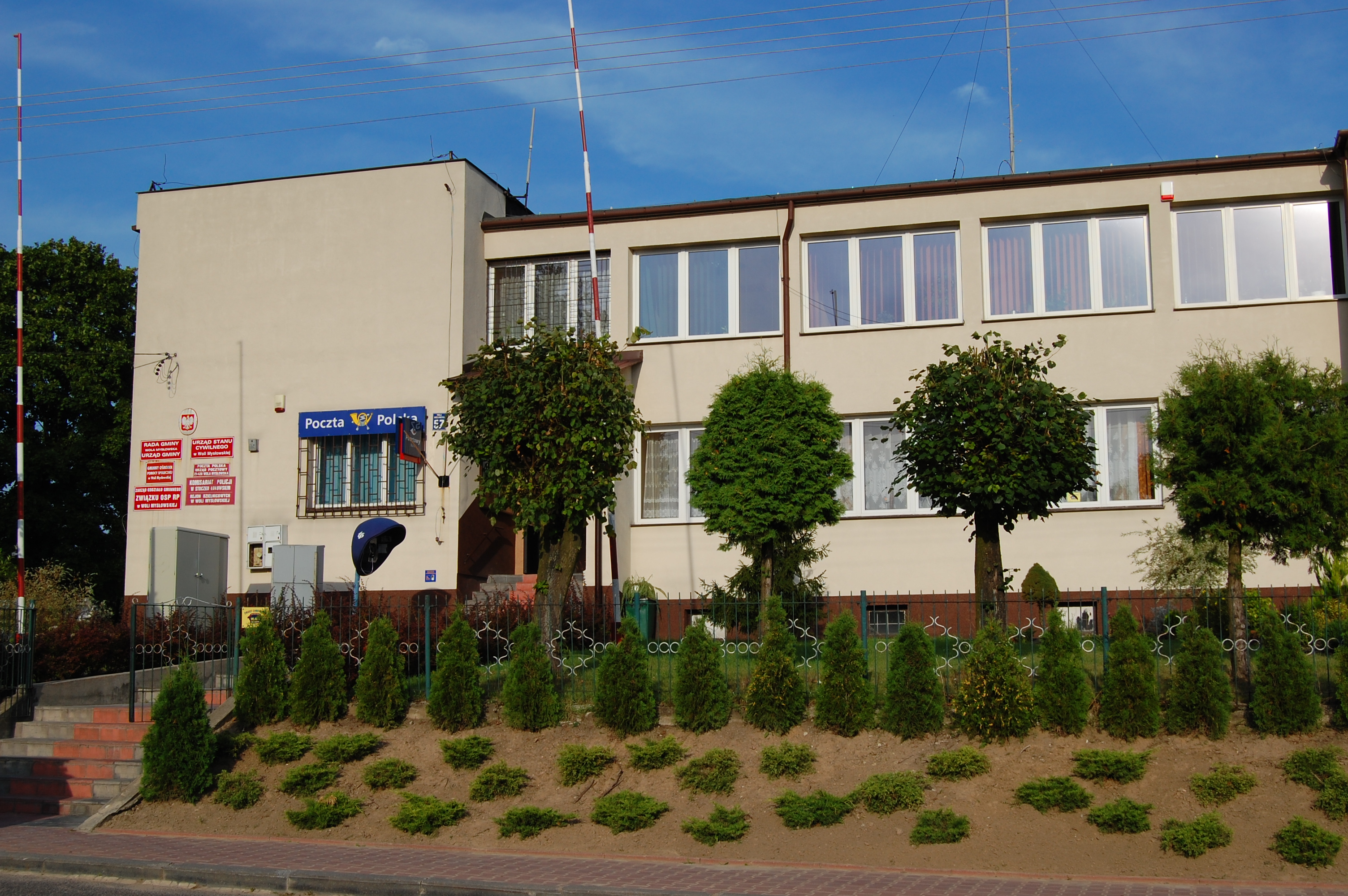 Administrative building of Gmina Wola Mysłowska (Lubelskie Viovodeship, Poland).